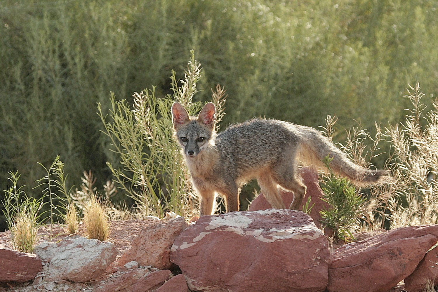 A kit fox around a dessert in southern Utah.